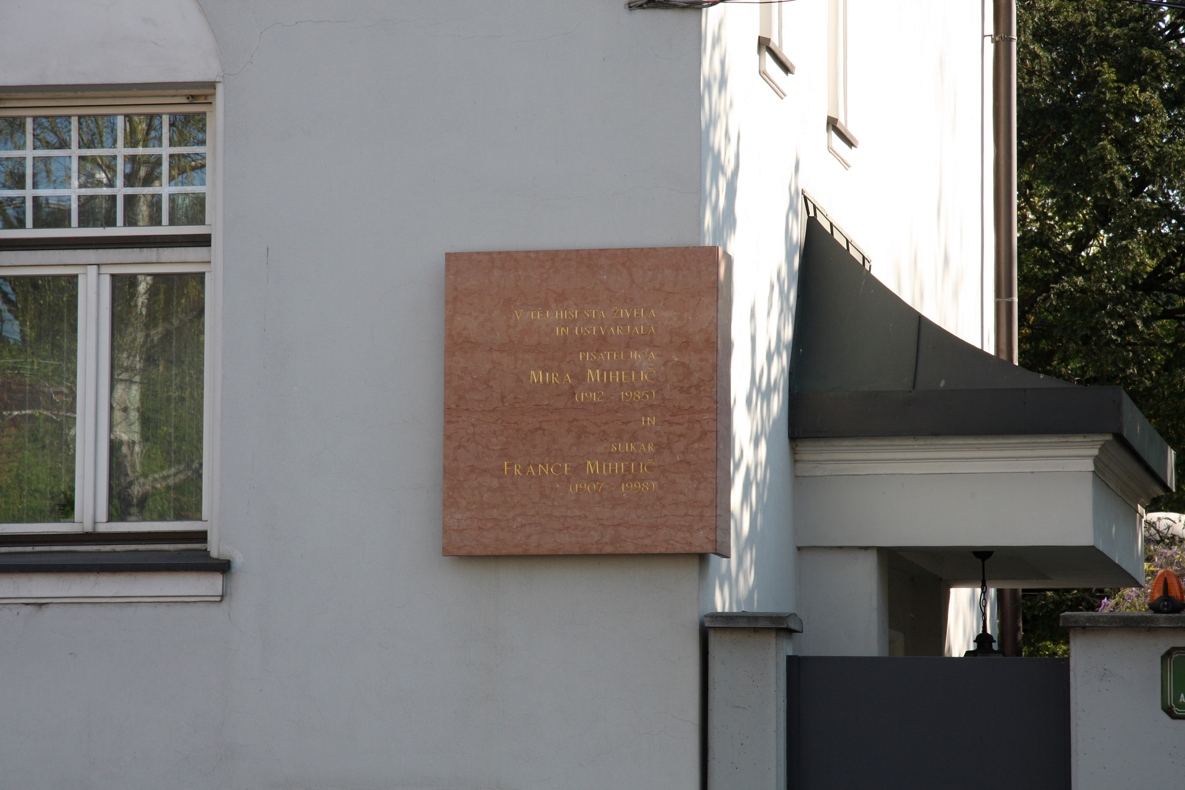 A plaque to Mira Mihelič and France Mihelič on a house on Aškerčeva street, Ljubljana.